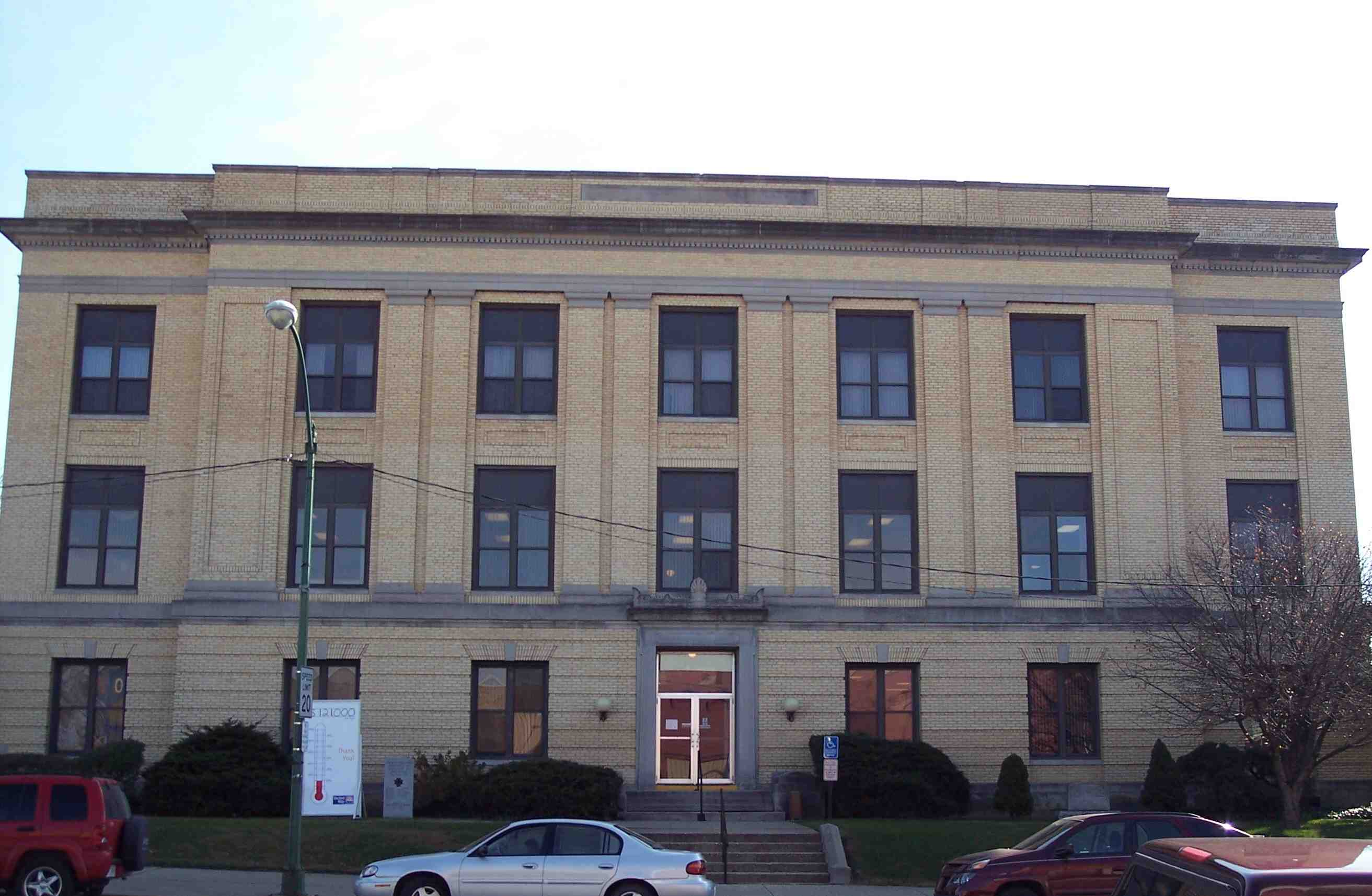 Main Street entrance of the Pike County Courthouse in Petersburg.